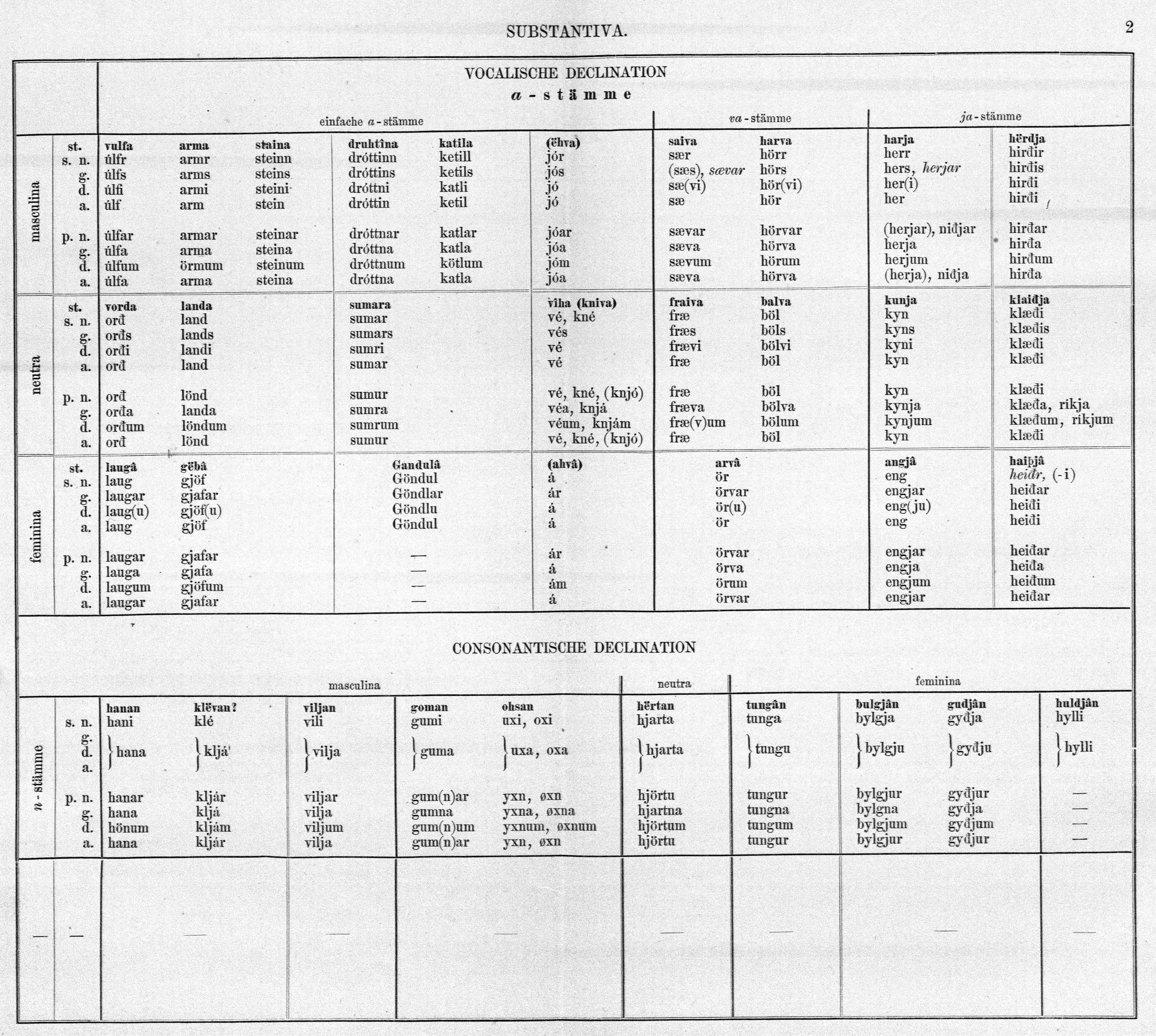 Paradigms on german grammar: gothic, old norse, anglo-saxon, old saxon, old high german, middle high german